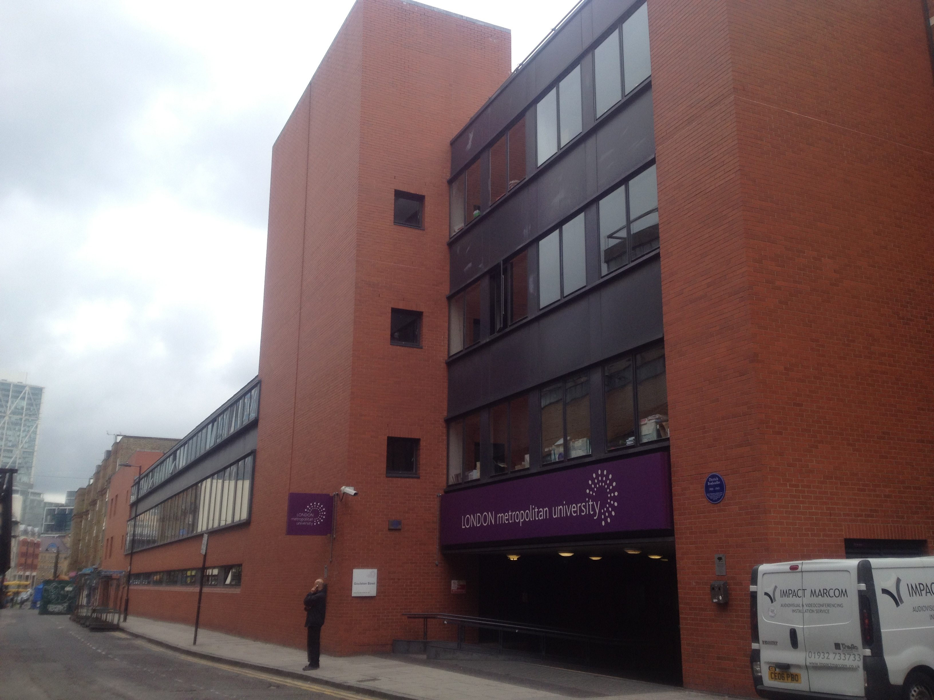 Taken by iPhone 4S Camera